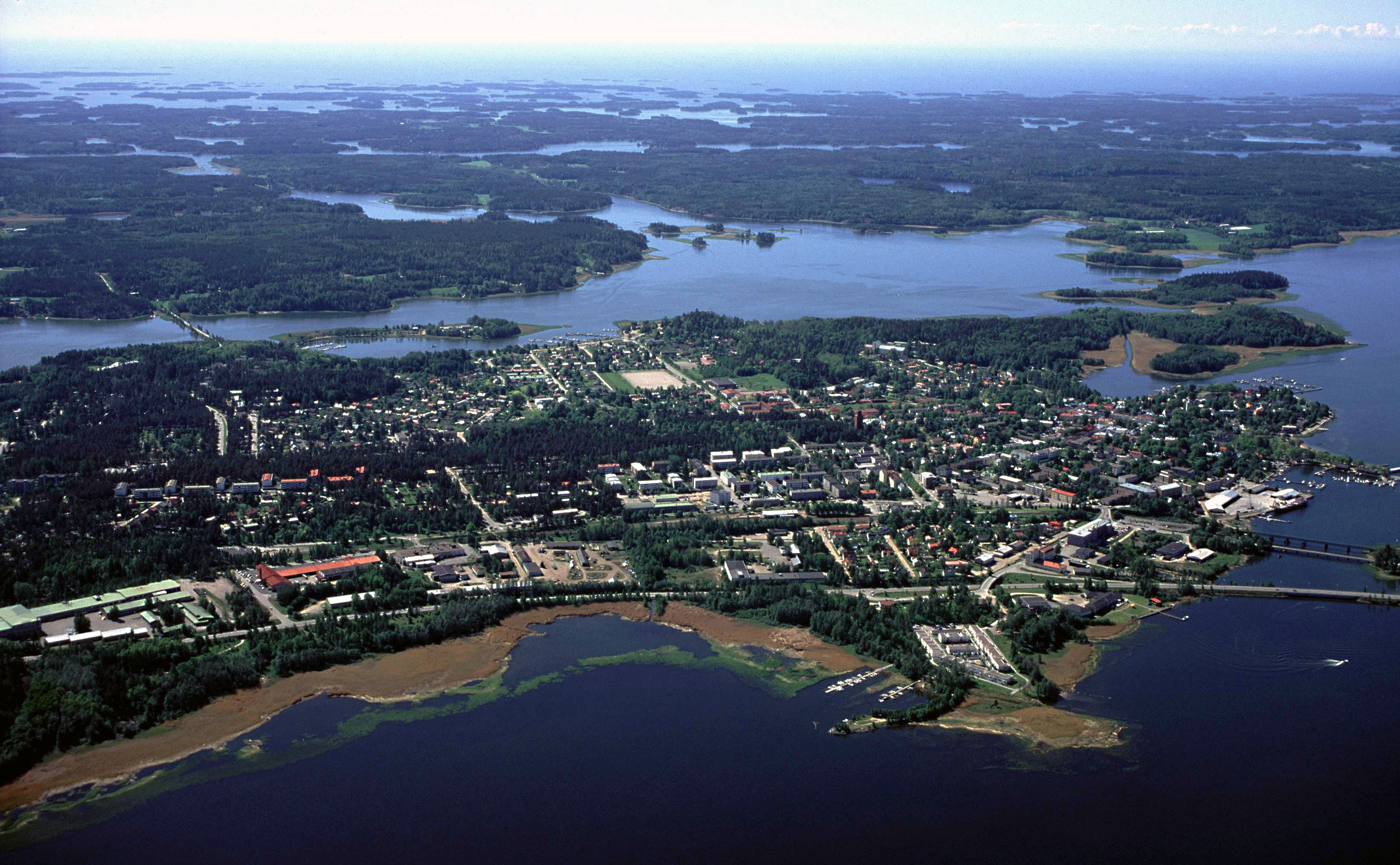 Former small town Ekenäs from north. Ekenäs is nowadays an urban area in the city of Raseborg, Finland.